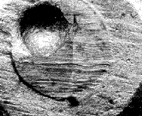 A picture of a Bullet under a Microscope being scanned by Drugfire.